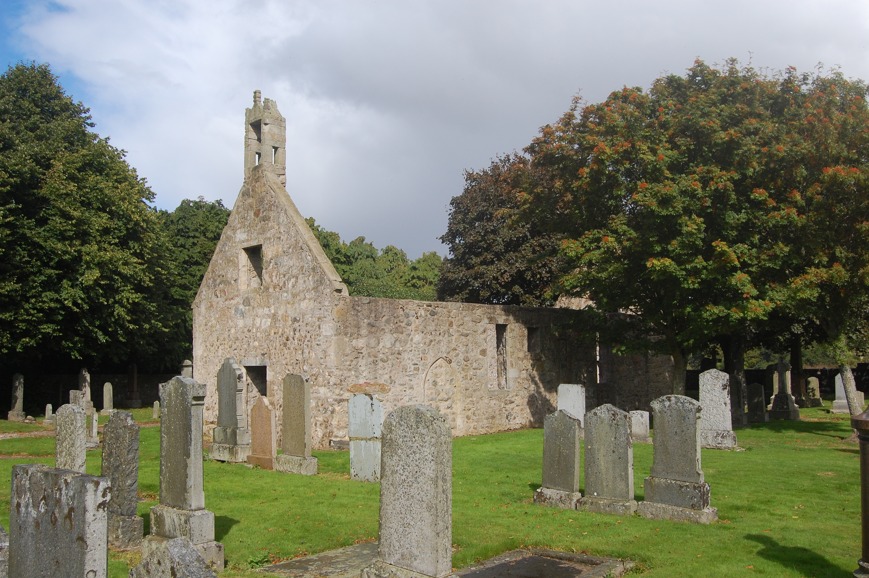 Old Parish Church of Dyce with Churchyard Wall and Watchhouse